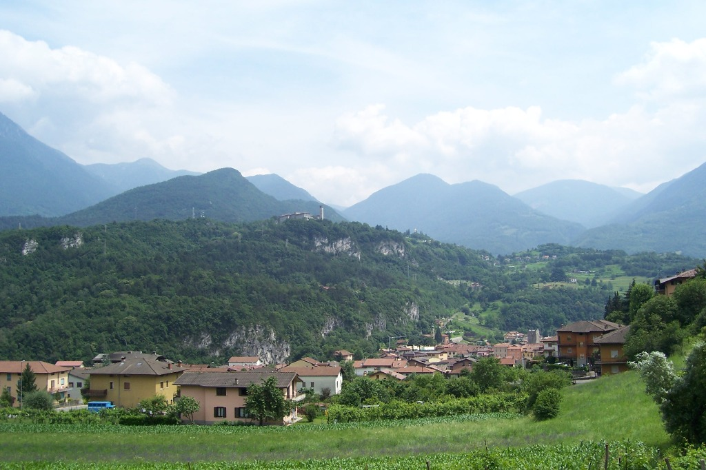 East Valle Camonica seen from Malegno